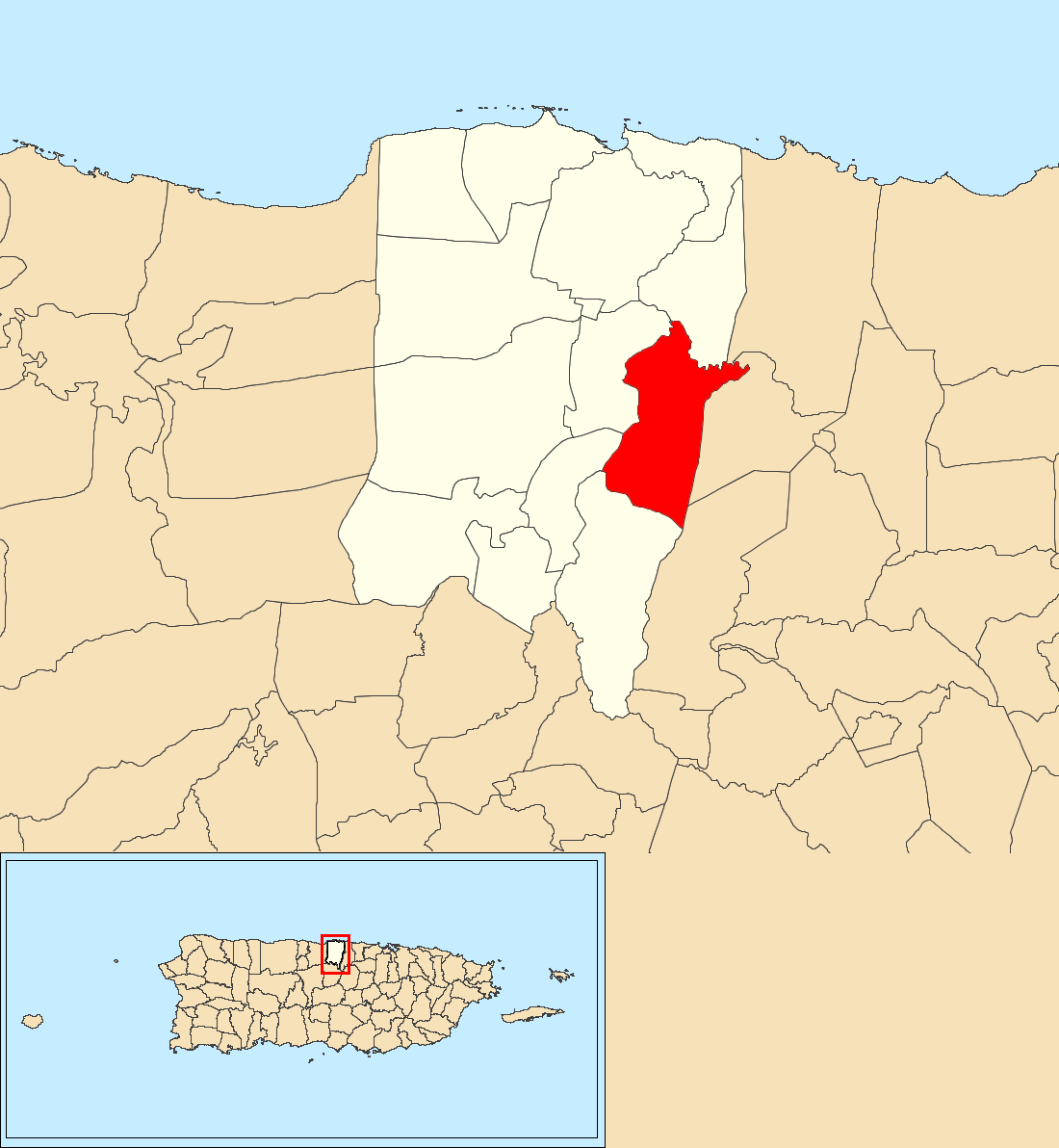 Almirante Norte, Vega Baja, Puerto Rico locator map